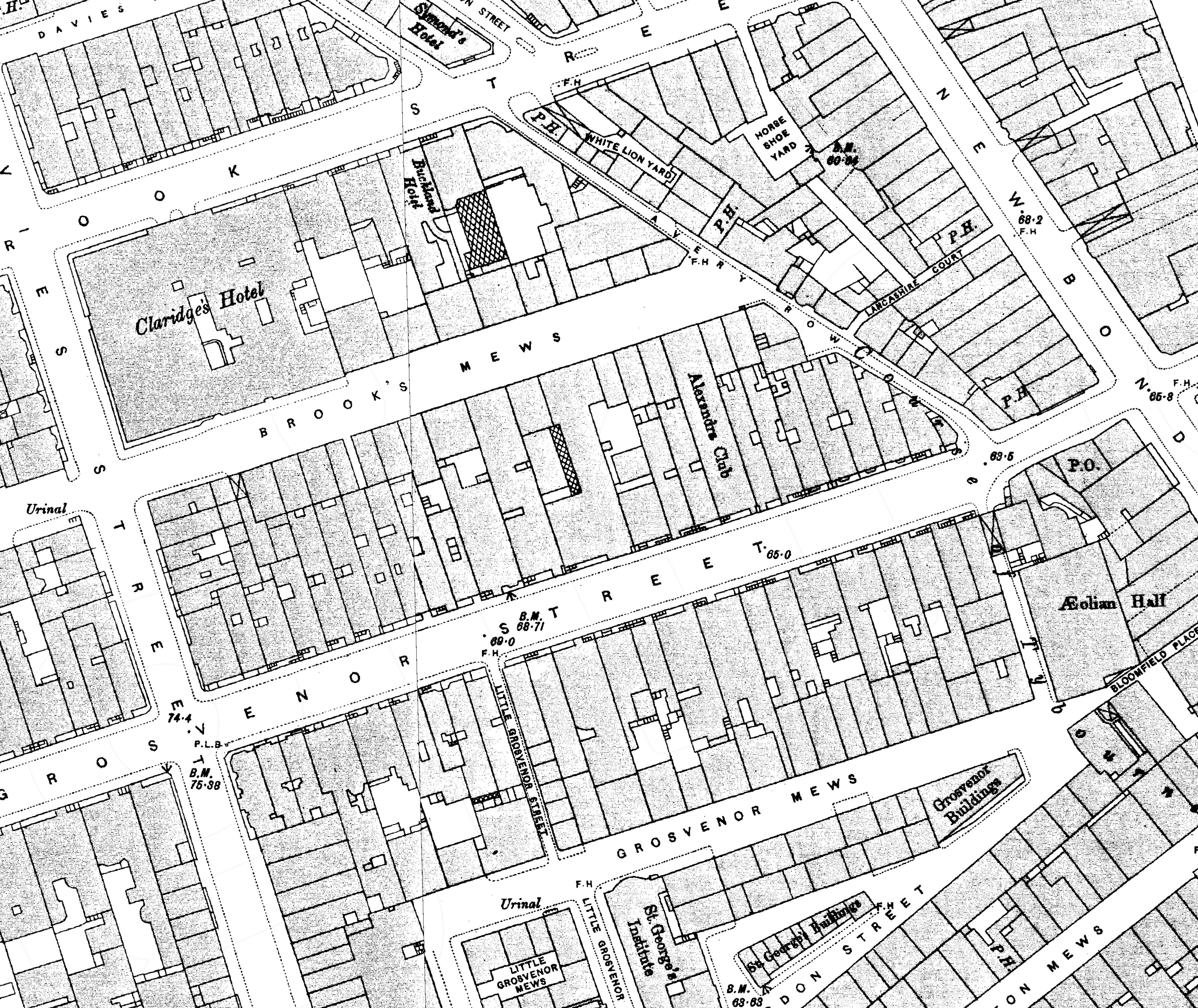 Claridge's Hotel, Brook's Mews, Alexandra Club 1910 map